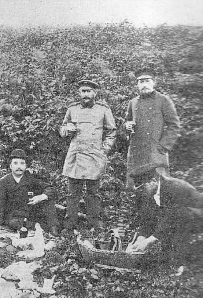 Anton Chekhov on a picnic on 1890